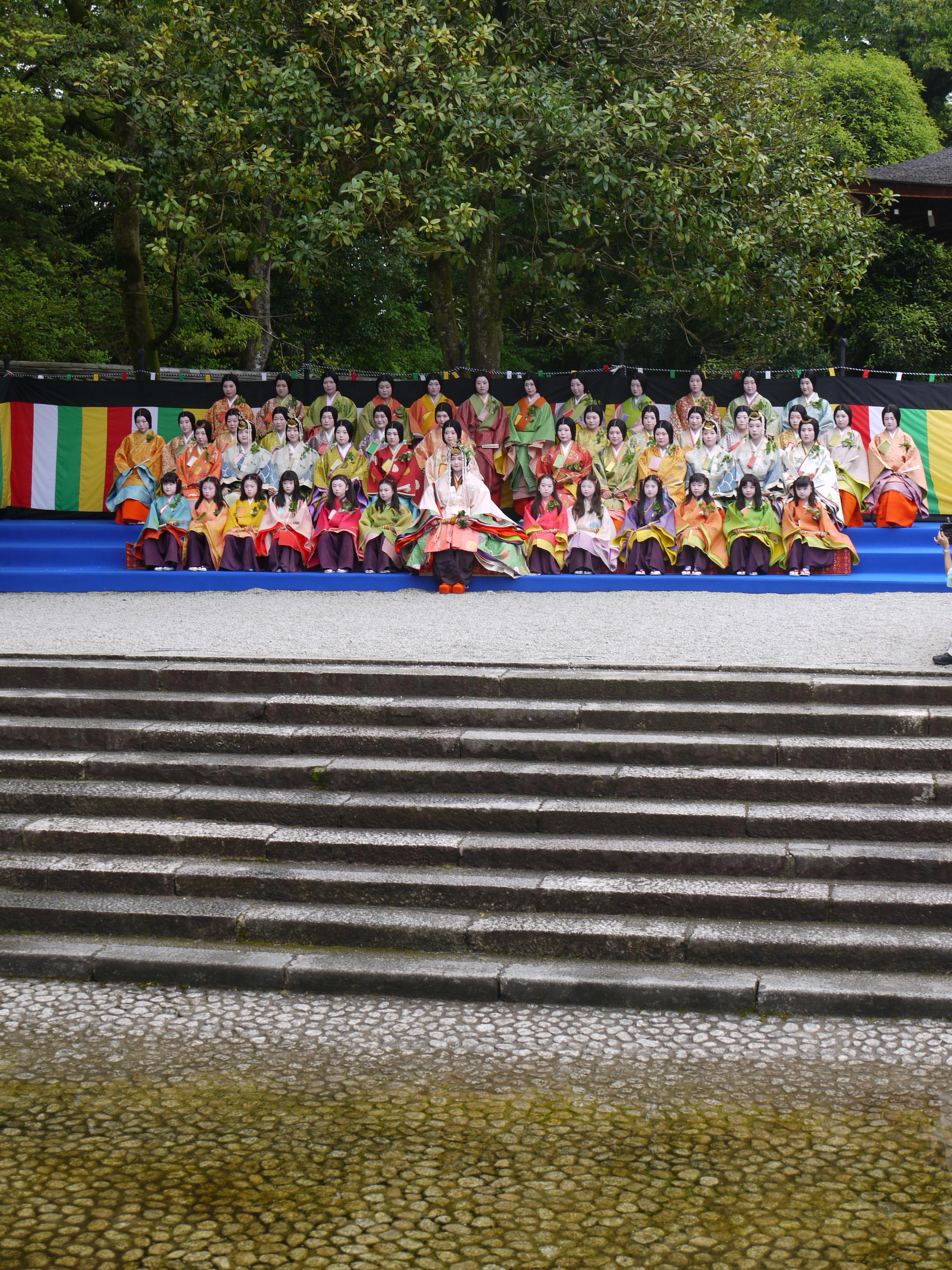 Saio Dai and her women's parade at Shimogamo Shrine